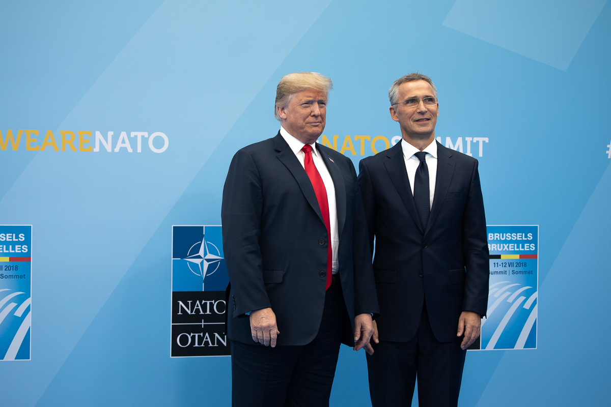 President Donald J. Trump and Secretary Jens Stoltenberg of the North Atlantic Treaty Organization, July 11, 2018 in Brussels. Official White House Photo by Shealah Craighead.